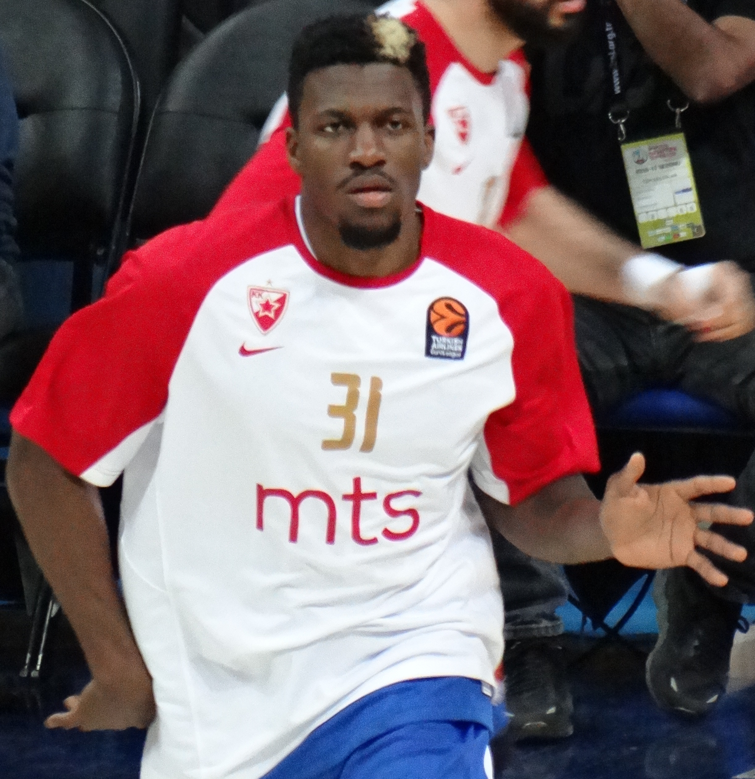 Dylan Ennis 31 KK Crvena zvezda 20171219